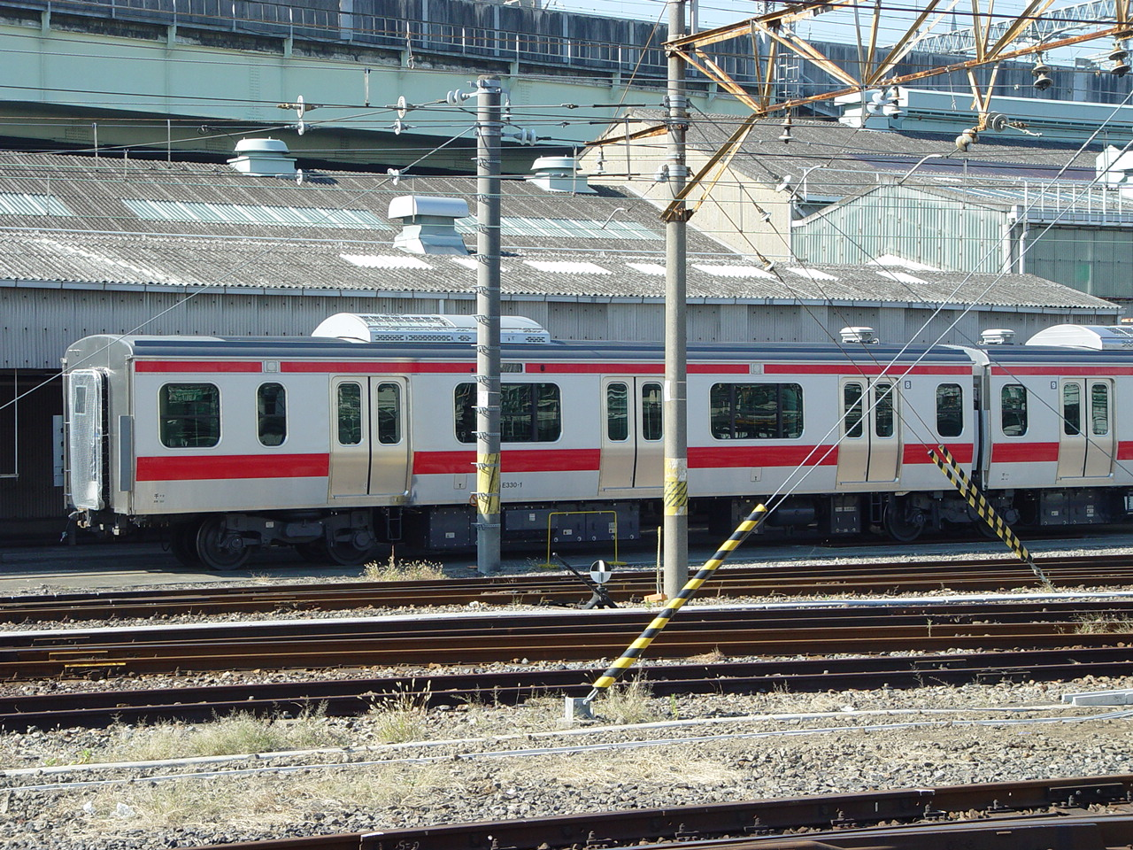 SaHa E330-1 (car 8) of the experimental JR East E331 series EMU at Omiya Works next to Omiya Station